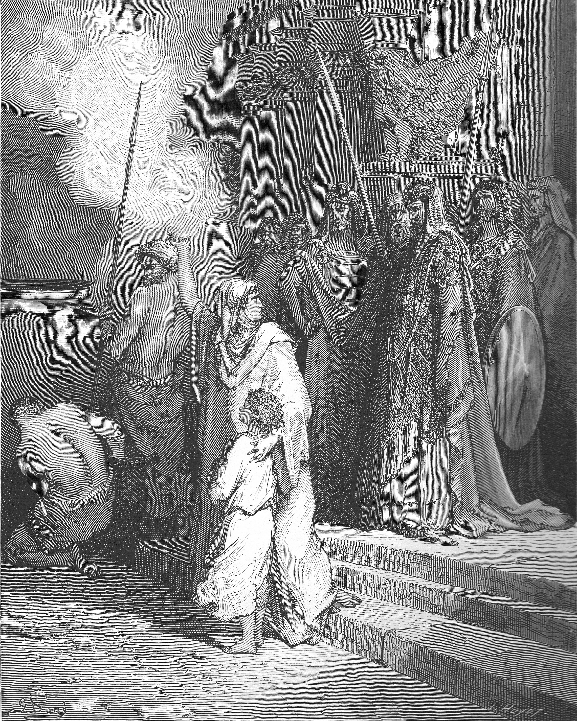 The Courage of a Mother (2 Macc. 7:20-42)